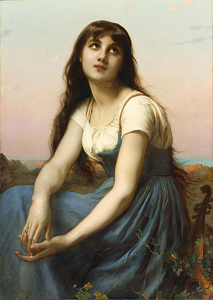 A Young Beauty Oil on canvas 98 x 69 cm